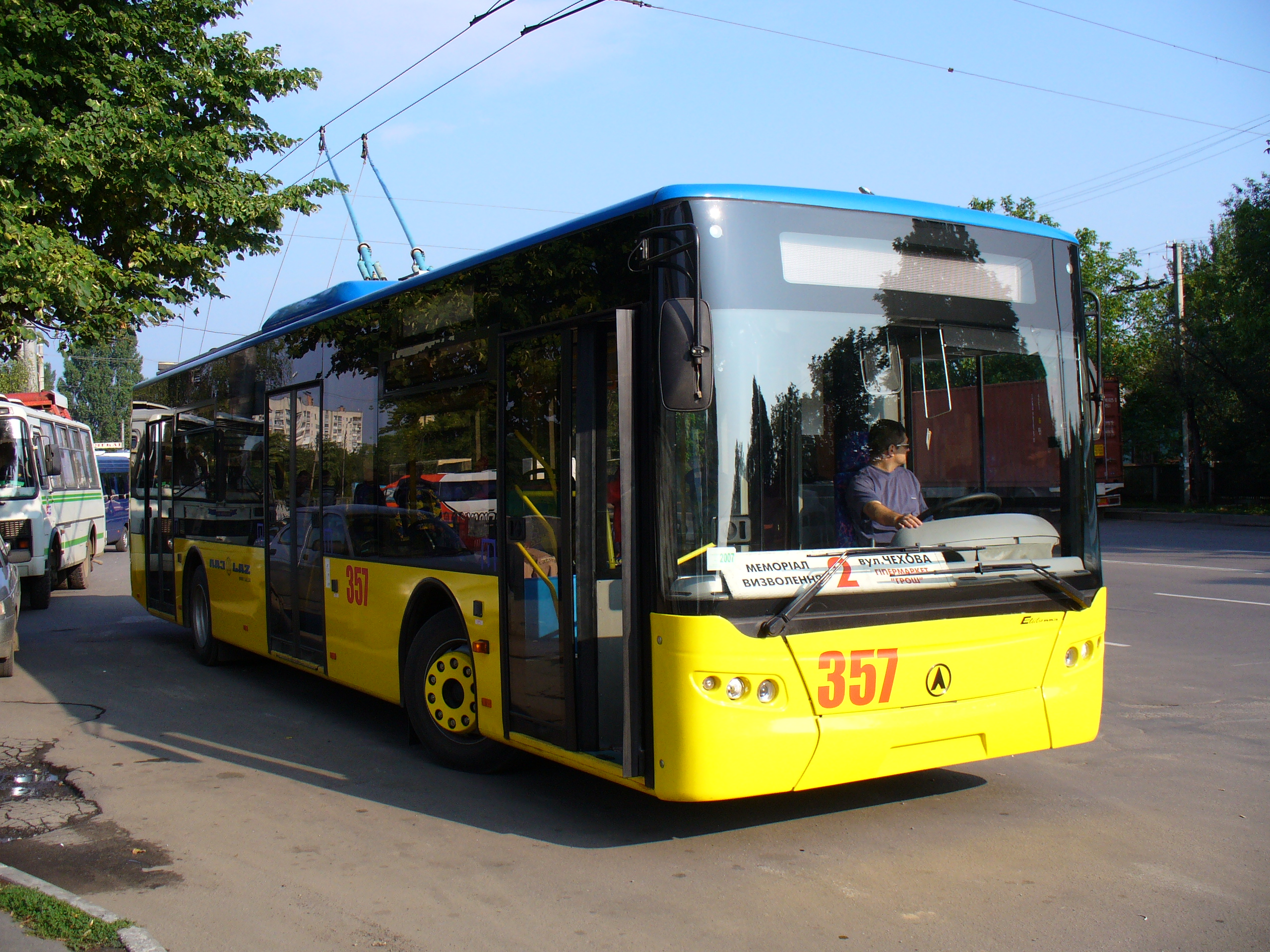 The ElectroLAZ E183 trolleybus. Ukraine, Vinnytsya